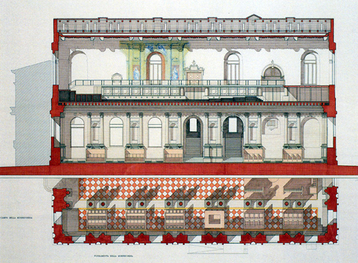 Project of restoration and renovation of the former Scuola grande della Misericordia as House of Music. Detail of the plan and section.